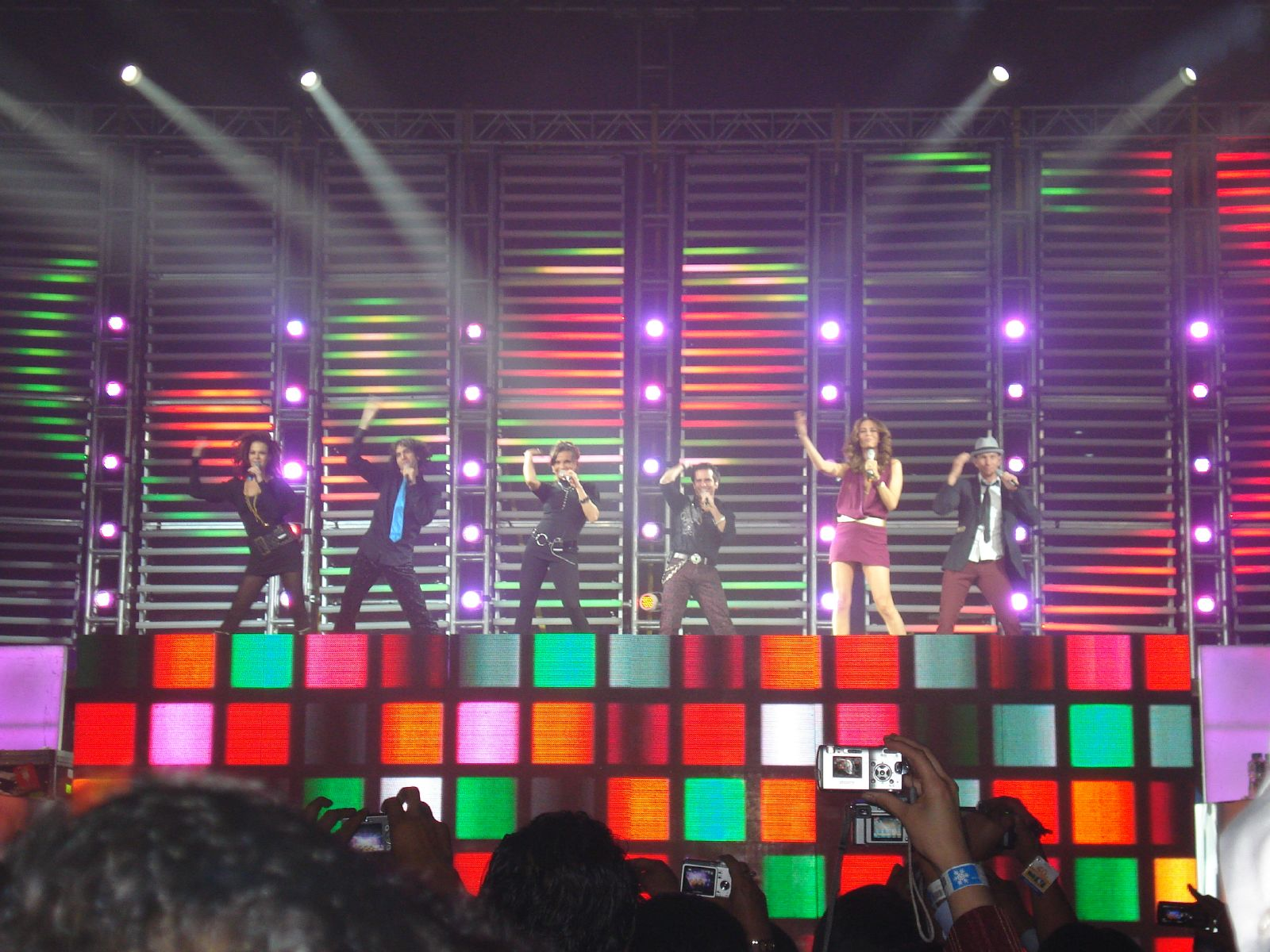 Timbiriche,is the name of a Mexican group